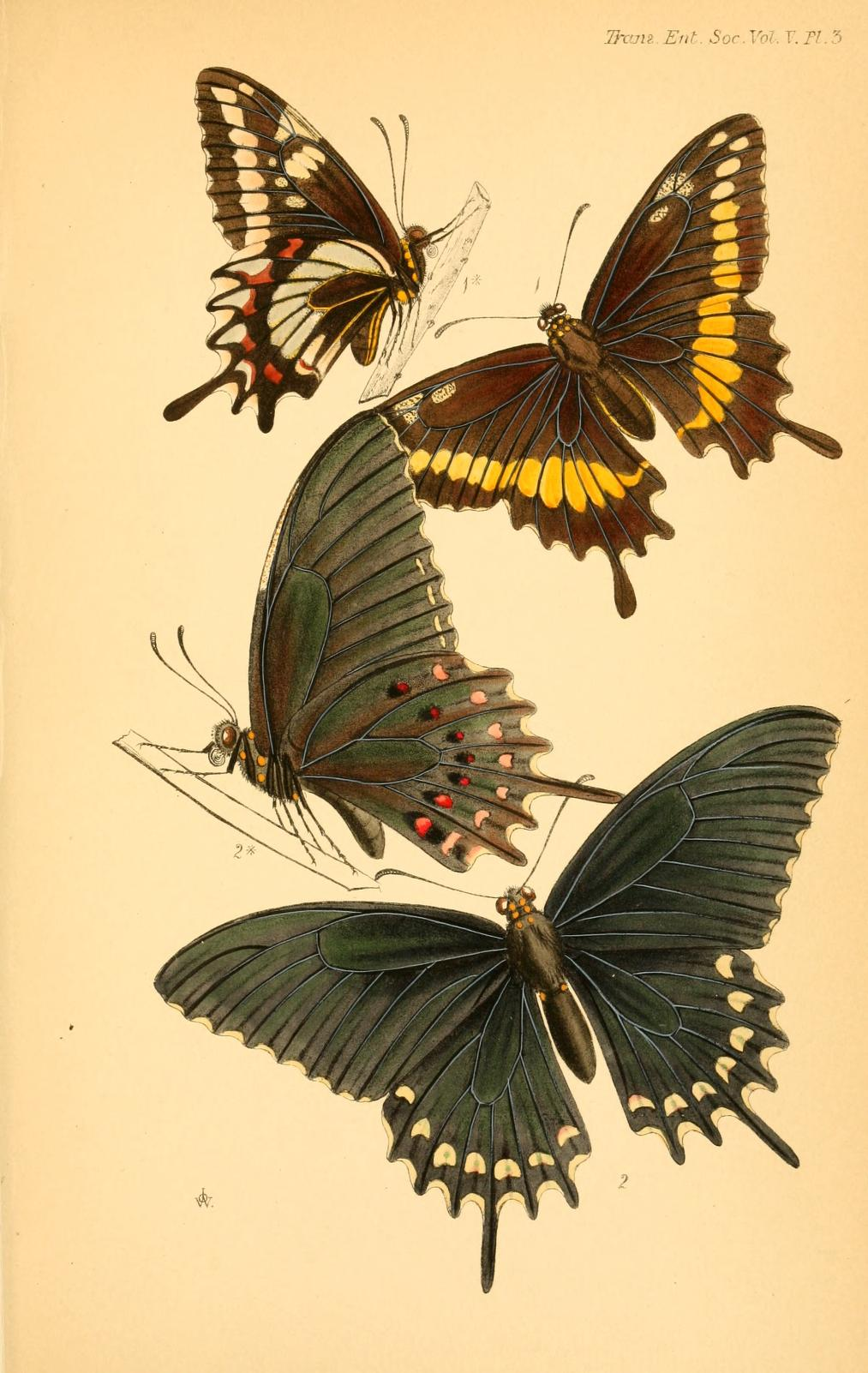 Westwood1847TransEntSocLondPlate3 Battus zetides Munroe, 1971 replacement name for zetes Westwood, 1847 which name is a junior primary homonym Papilio erostratus Westwood, 1847 iconotype